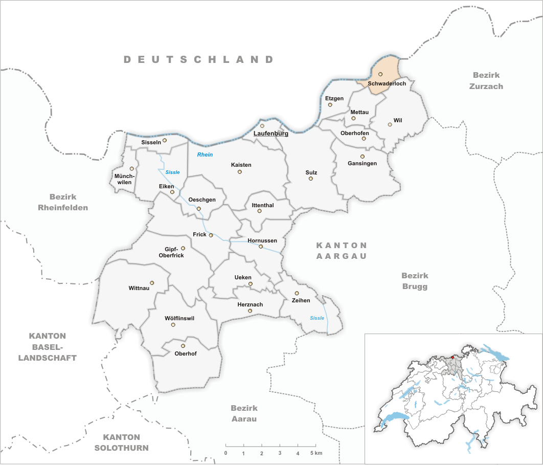 Municipality Schwaderloch